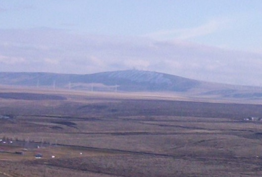 Jump off Joe as viewed from Thompson Hill on the south side of Kennewick.